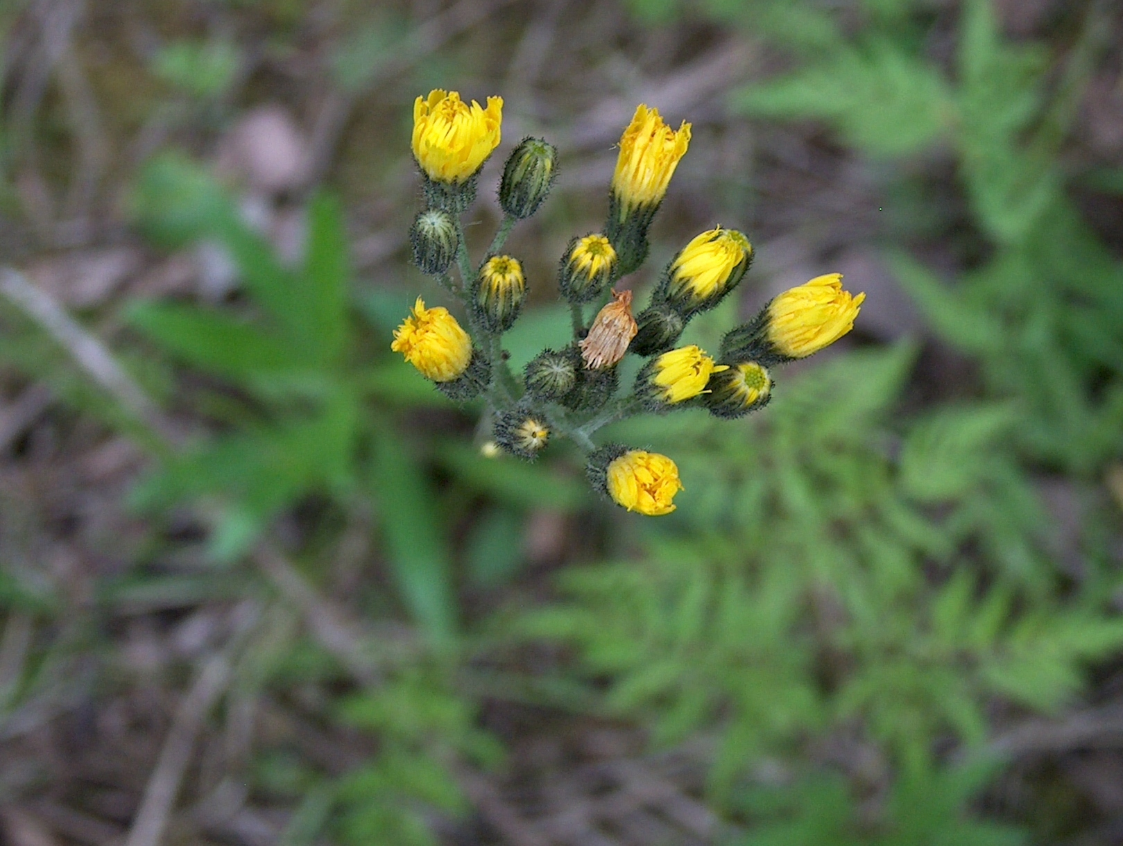 Hieracium cymosum in the evening of a rainy day - Kerava, Finland